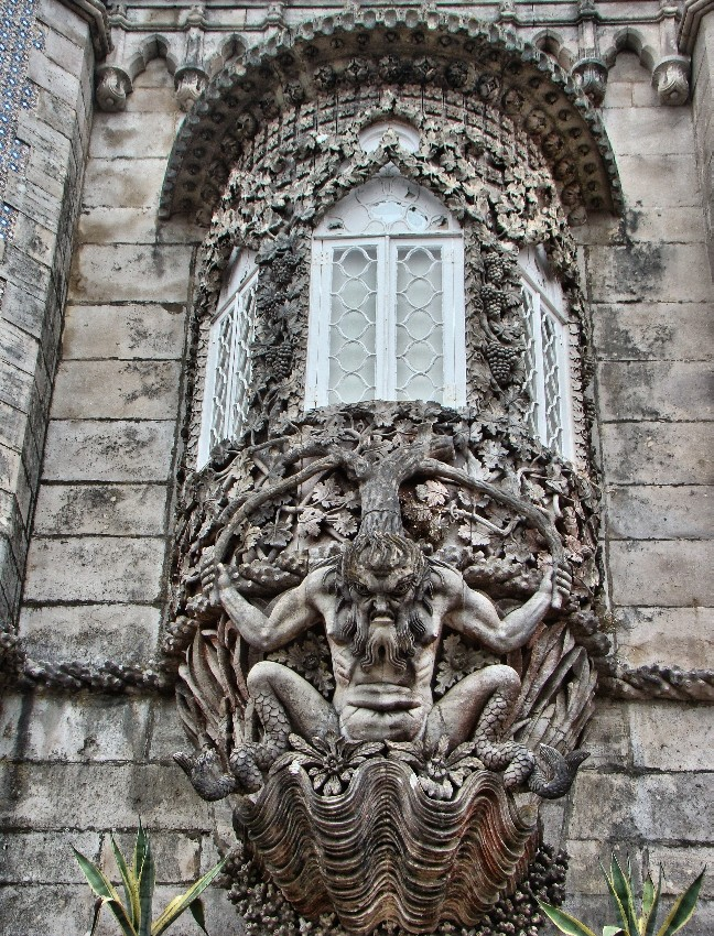 Newt